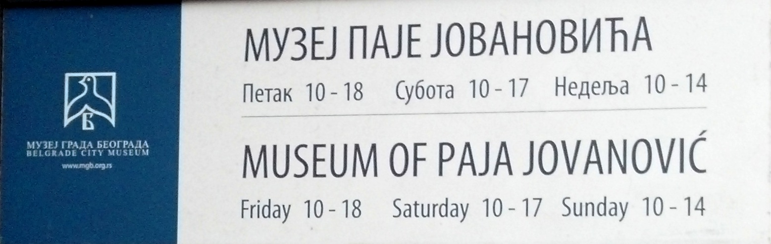 Paje Jovanovic Museum - Tabla